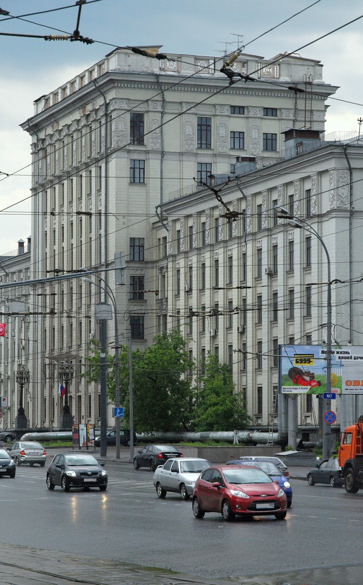 Entuziastov Highway, Moscow.